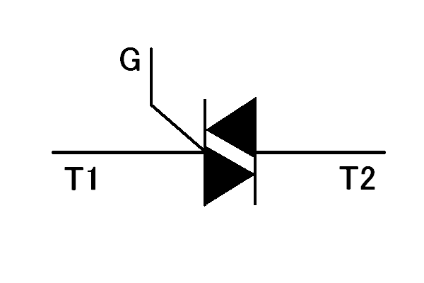 Schematic symbol of a triac